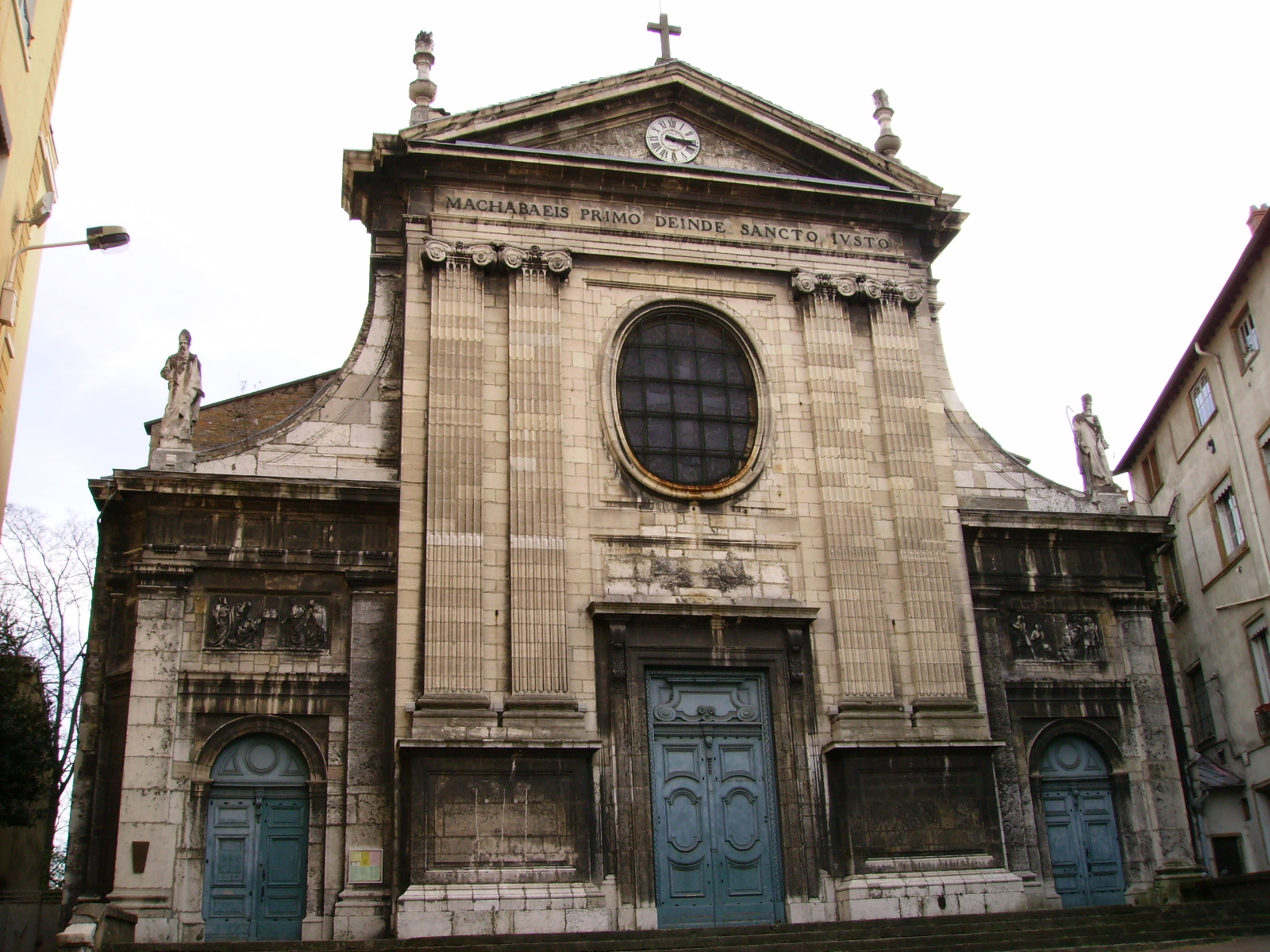 Church Saint Just Lyon